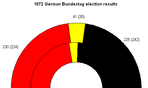 German election results seat chartSDP in red, FDP in yellow, CDU/CSU in black